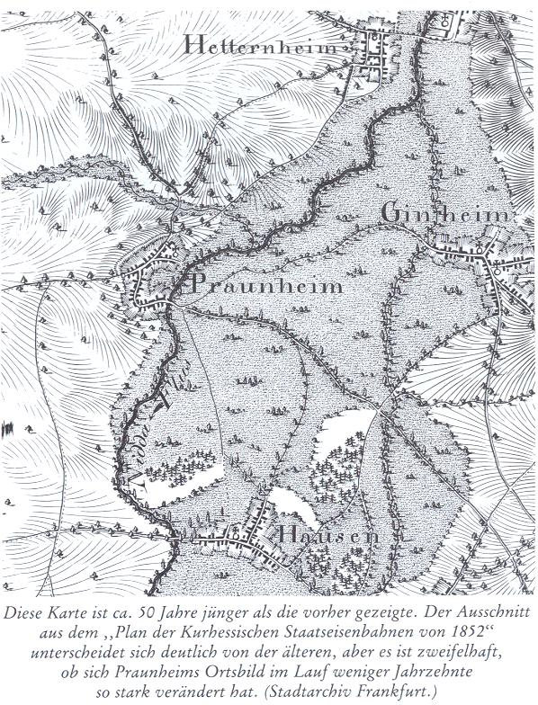 Map from about the year 1850 from Frankfurt Praunheim